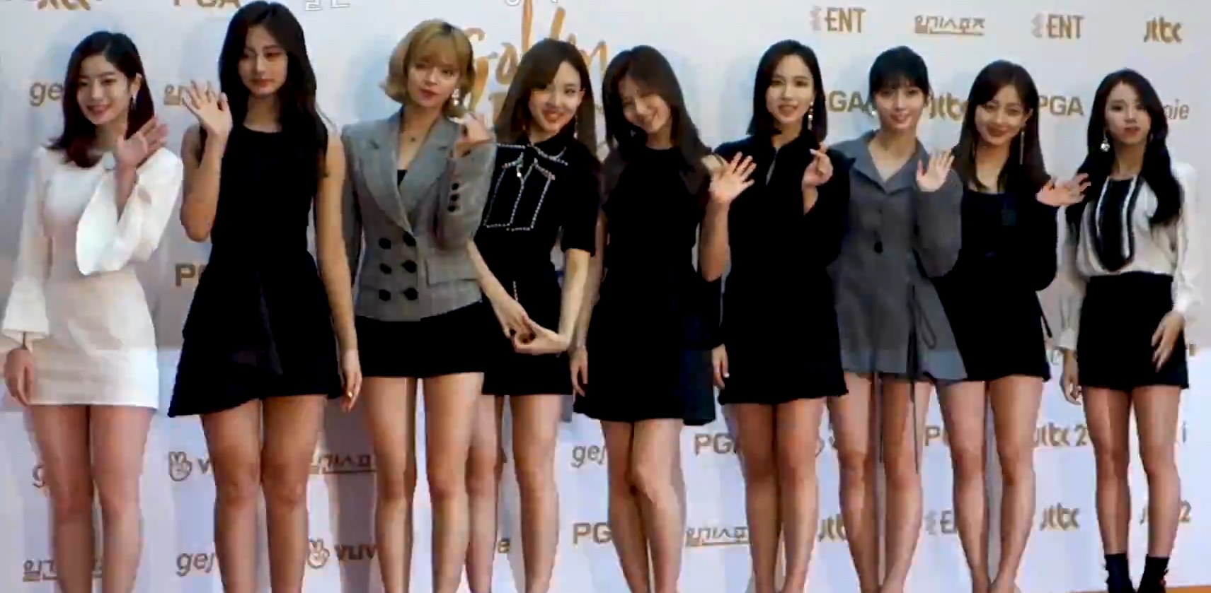 Twice on the red carpet of the Golden Disk Awards on January 10, 2018.